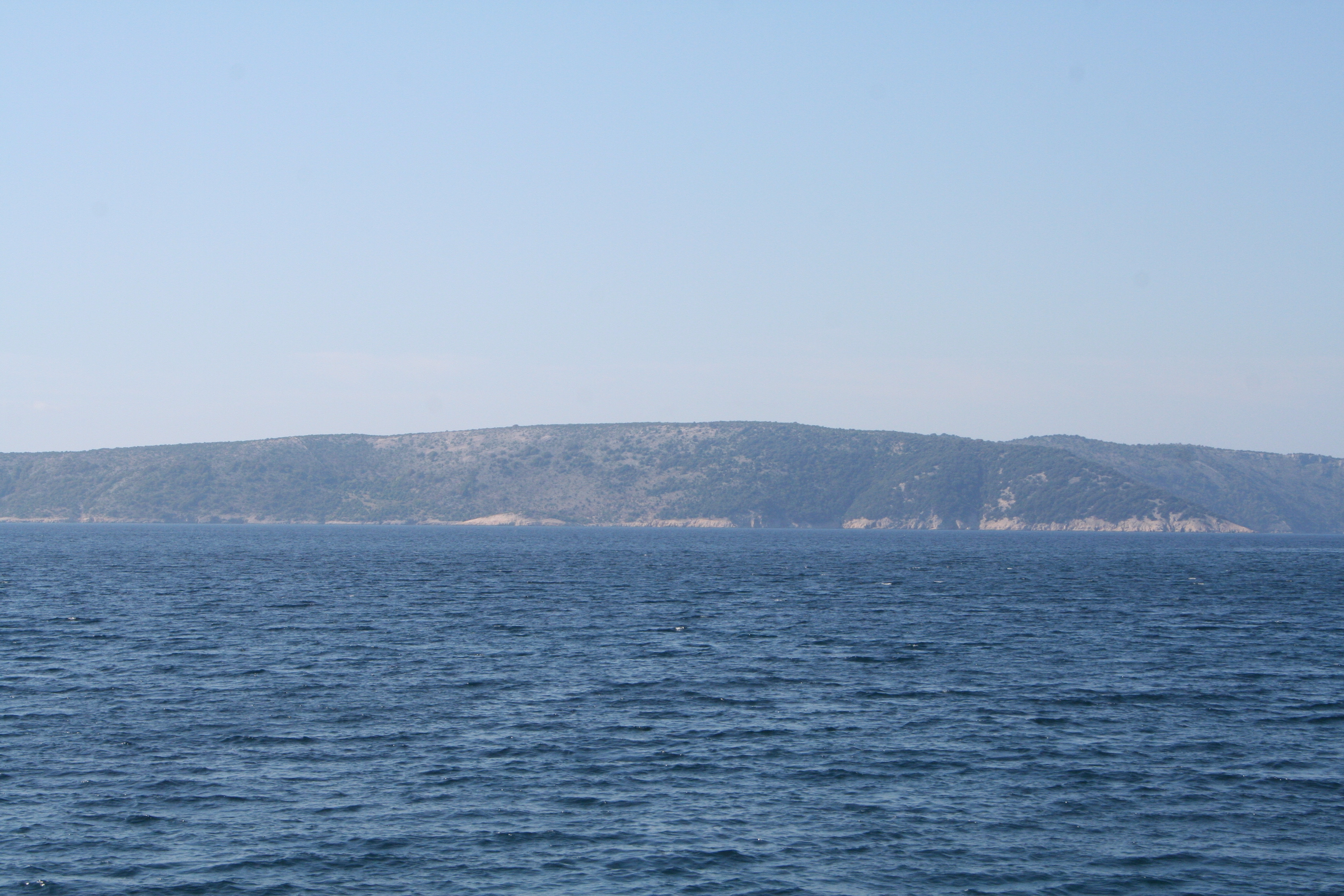 The Island of Plavnik, Croatia